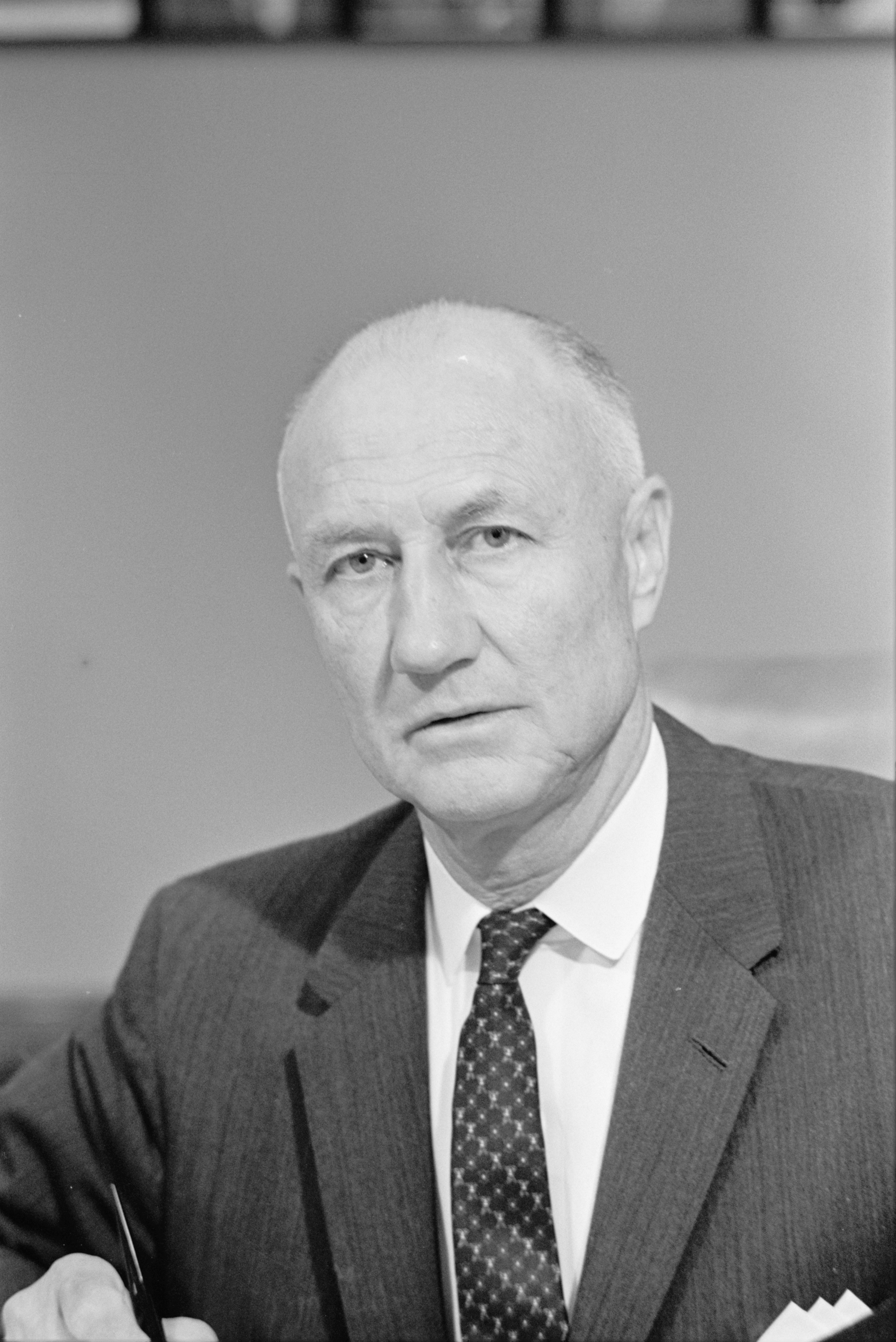 Senator Thurmond